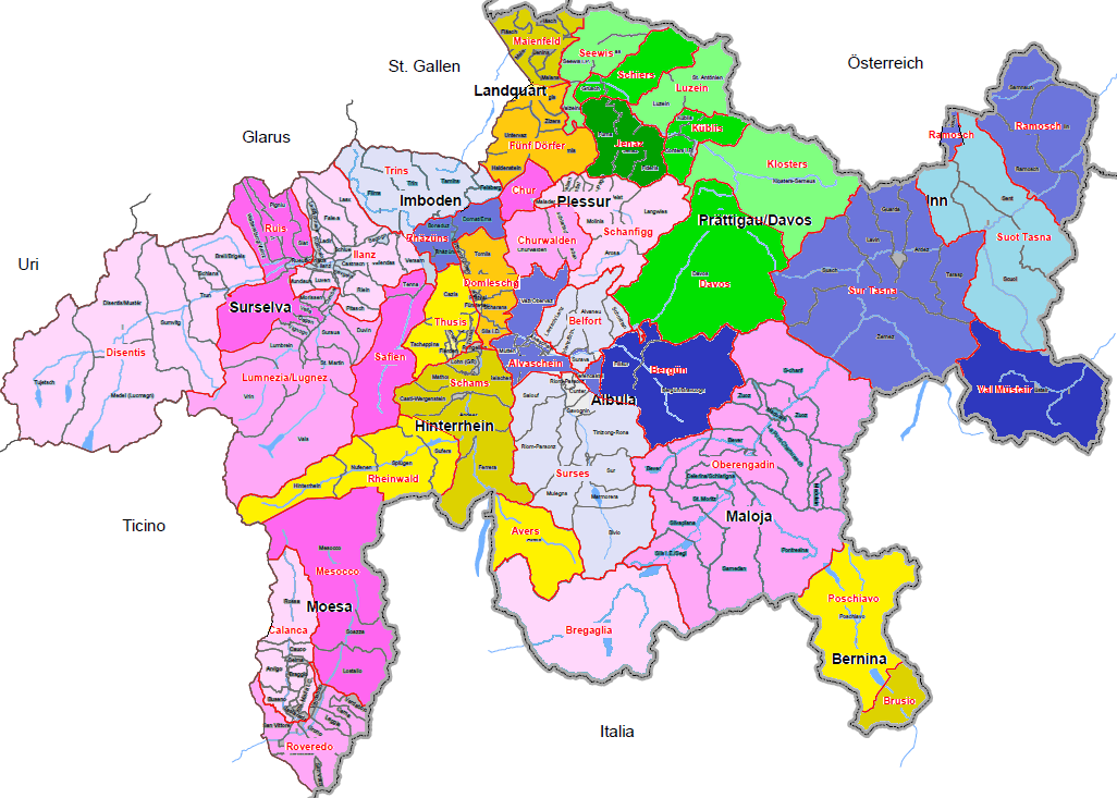 Maps of the circles of the canton of Grisons, Switzerland